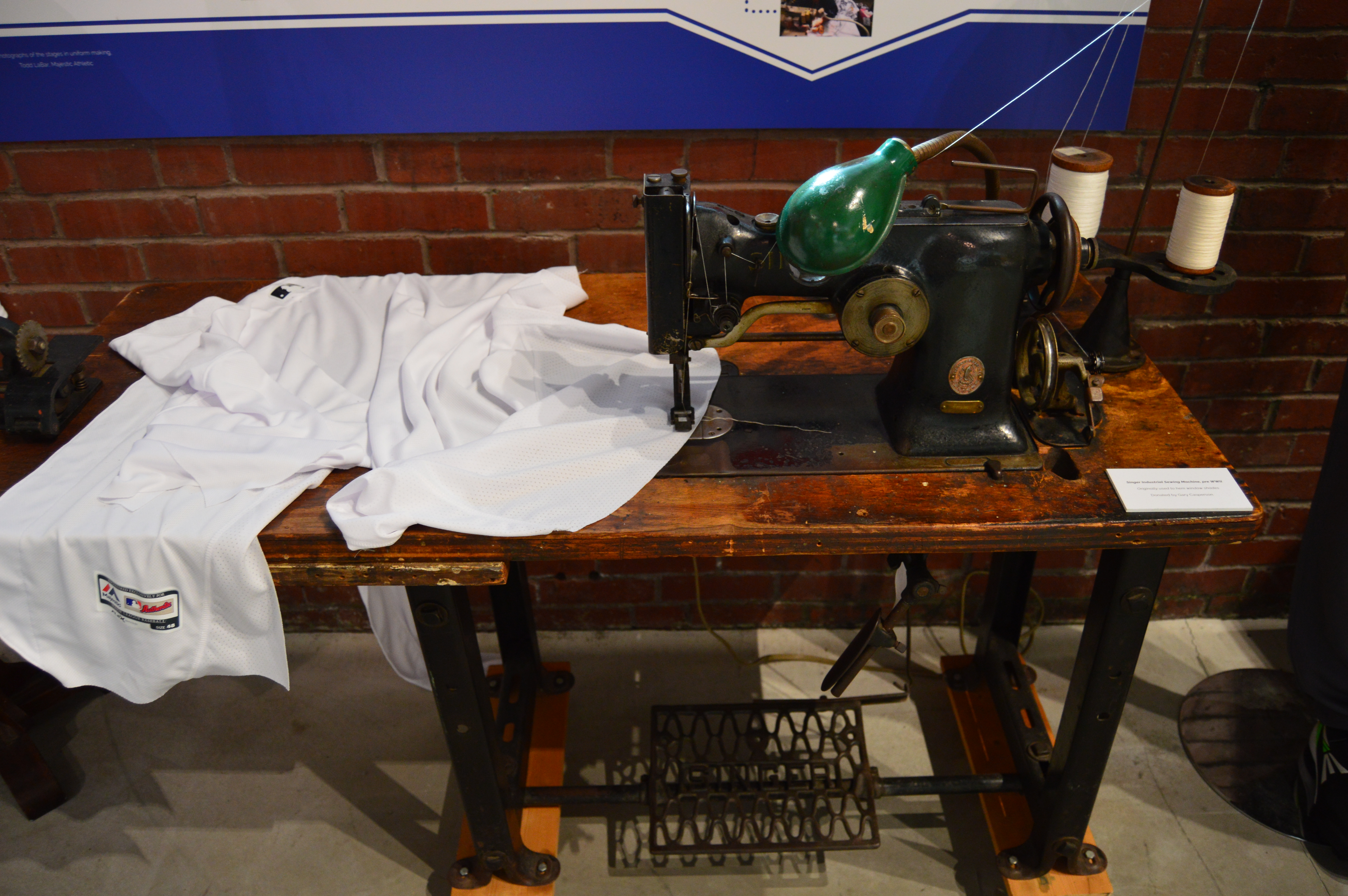 photo